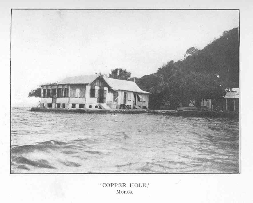 Copper Hole Monos Subject: Monos (Trinidad and Tobago), Dwellings--Trinidad and Tobago--Monos Geographic Subject: Trinidad and Tobago--Monos Tag: Coasts